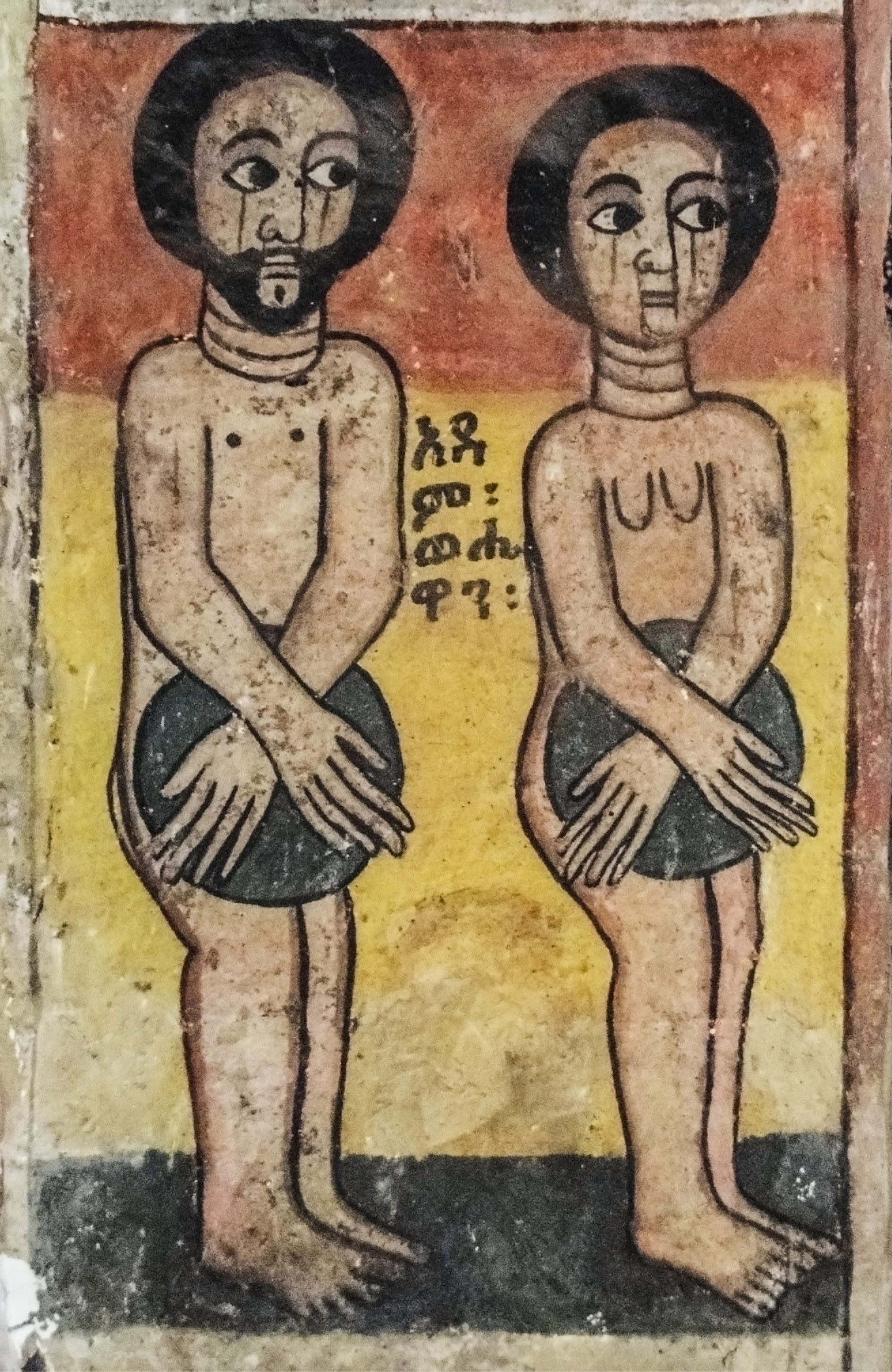 Painting of Adam and Eve inside Abreha and Atsbeha Church, Ethiopia